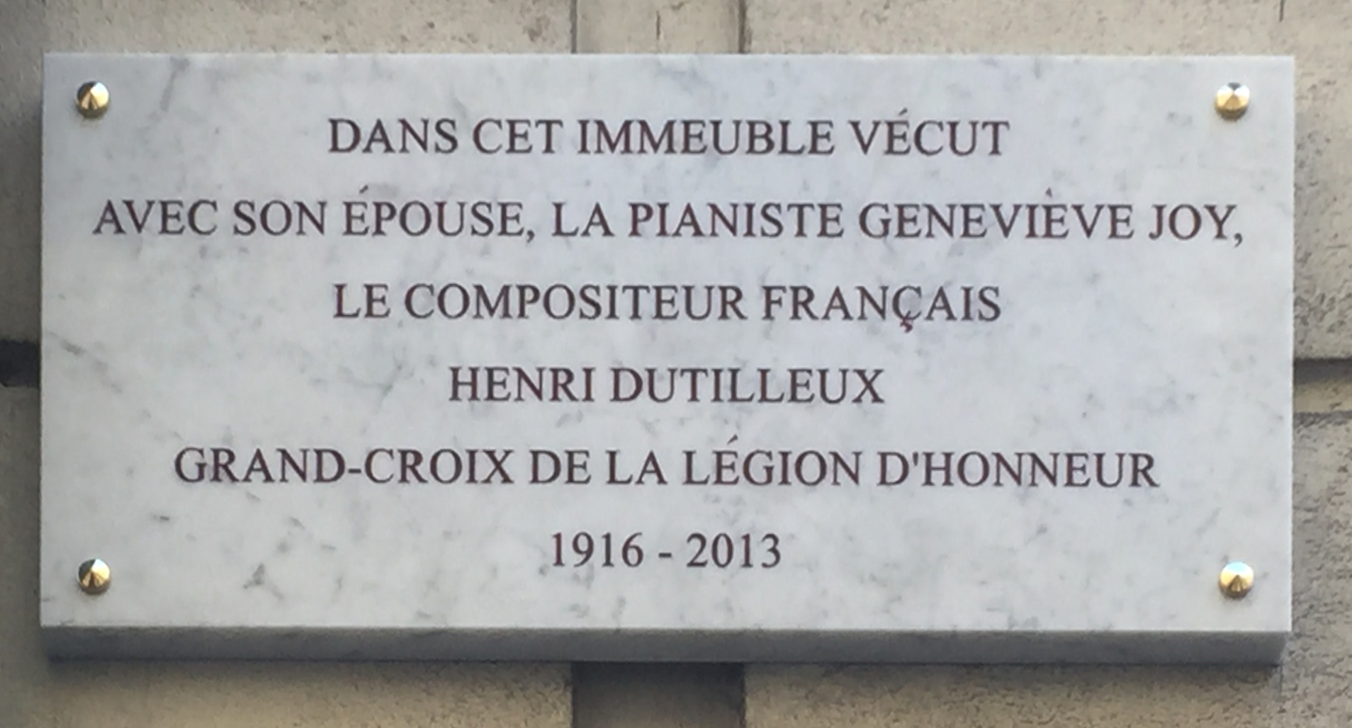 This photograph was taken with an iPhone 6